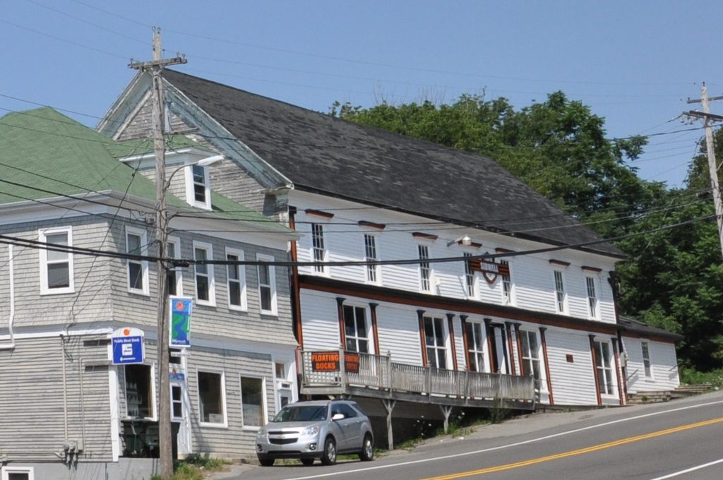 Weymouth Trading Post (Campbell's Store), Weymouth, Nova Scotia. It is no longer a store/trading post.